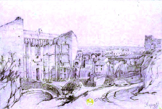 Orange